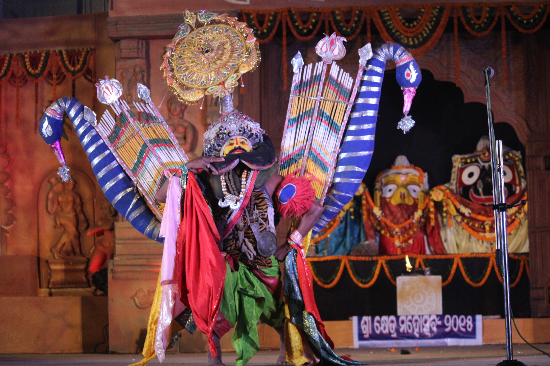 The most virile and spectacular dance during the religious processions in the district of Puri is known as Naga dance. Generally young and energetic men are chosen for the dance. The costume is heavy and elaborate. The dancer wears a huge head-gear profusely decorated with silver ornaments and a false beard almost covering the face. Multi-coloured attached in two bamboo sticks are tightly fitted to the arms. With jerky movement of the shoulders he dances in heroic steps. Sometimes he holds a gun. He moves at the head of the procession along with the drummers who provide rhythm to his movements.